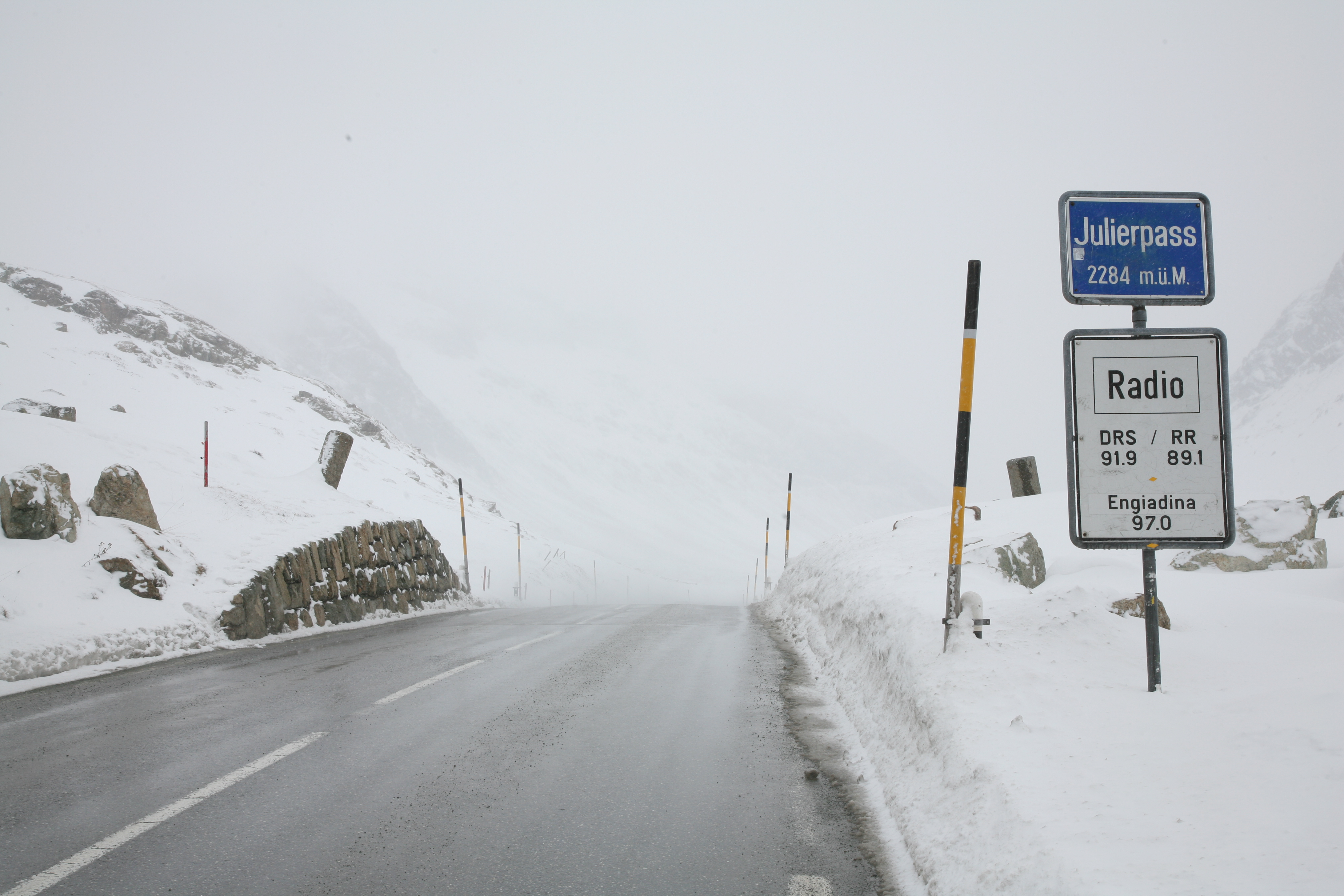 Julier Pass summit with road sign and roman column fragments.